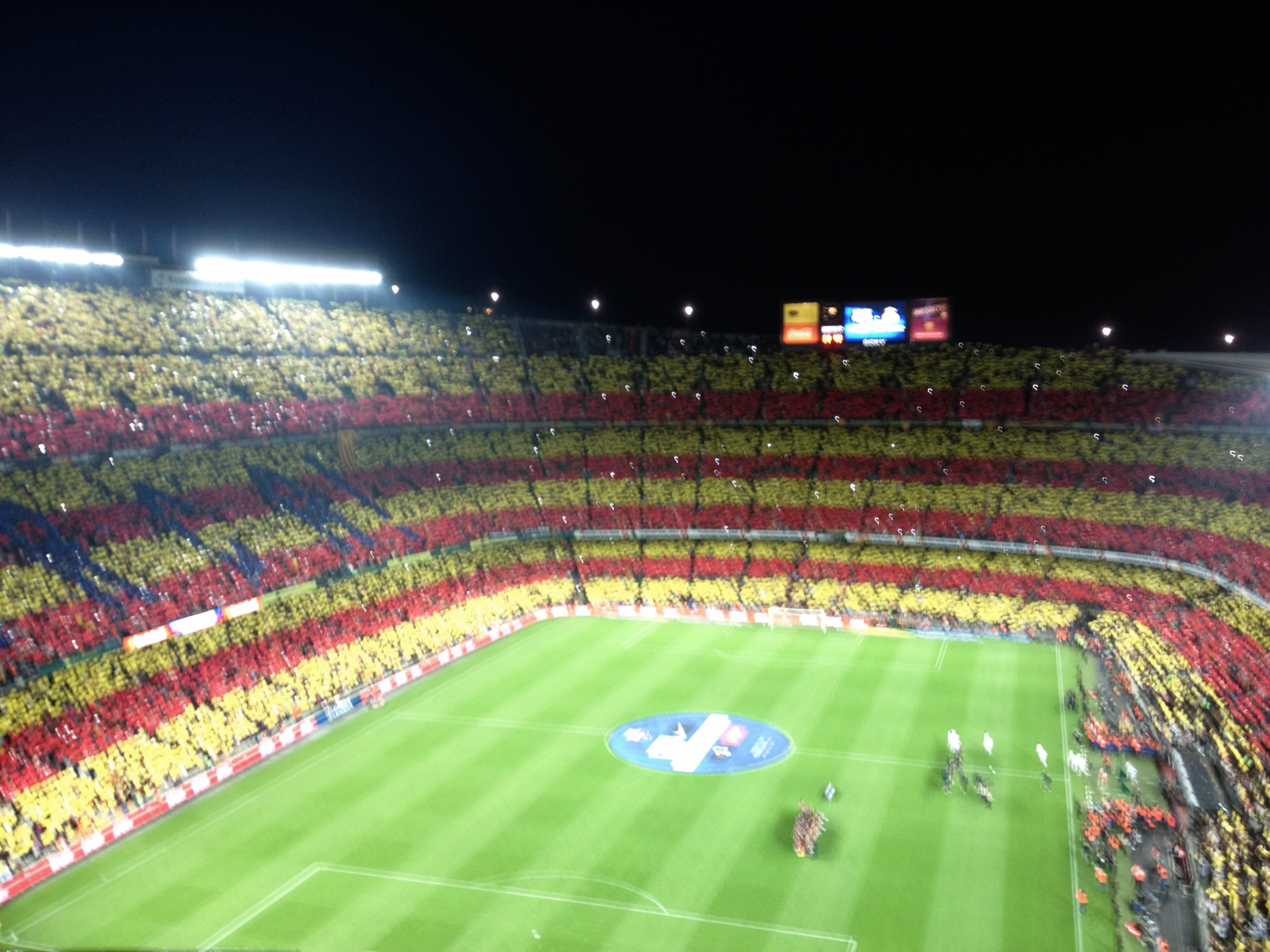 The Camp Nou creating an enormous Senyera (Catalan flag) during the el clásico match between FC Barcelona and Real Madrid. October 2012